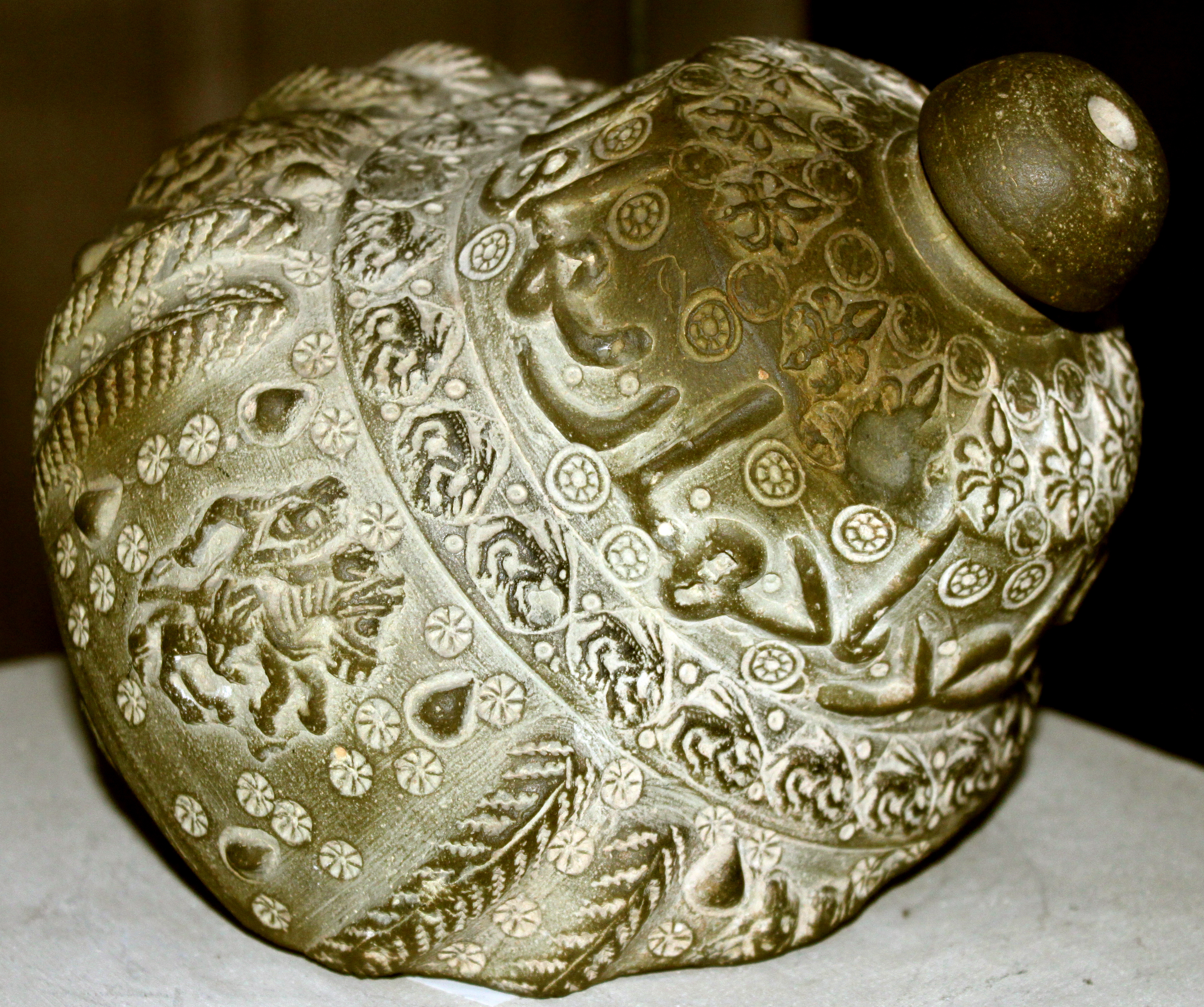 Qədim Gəncə gil qab, üzərində Məhəmməd Cahan Pəhləvanın adı yazılıb.